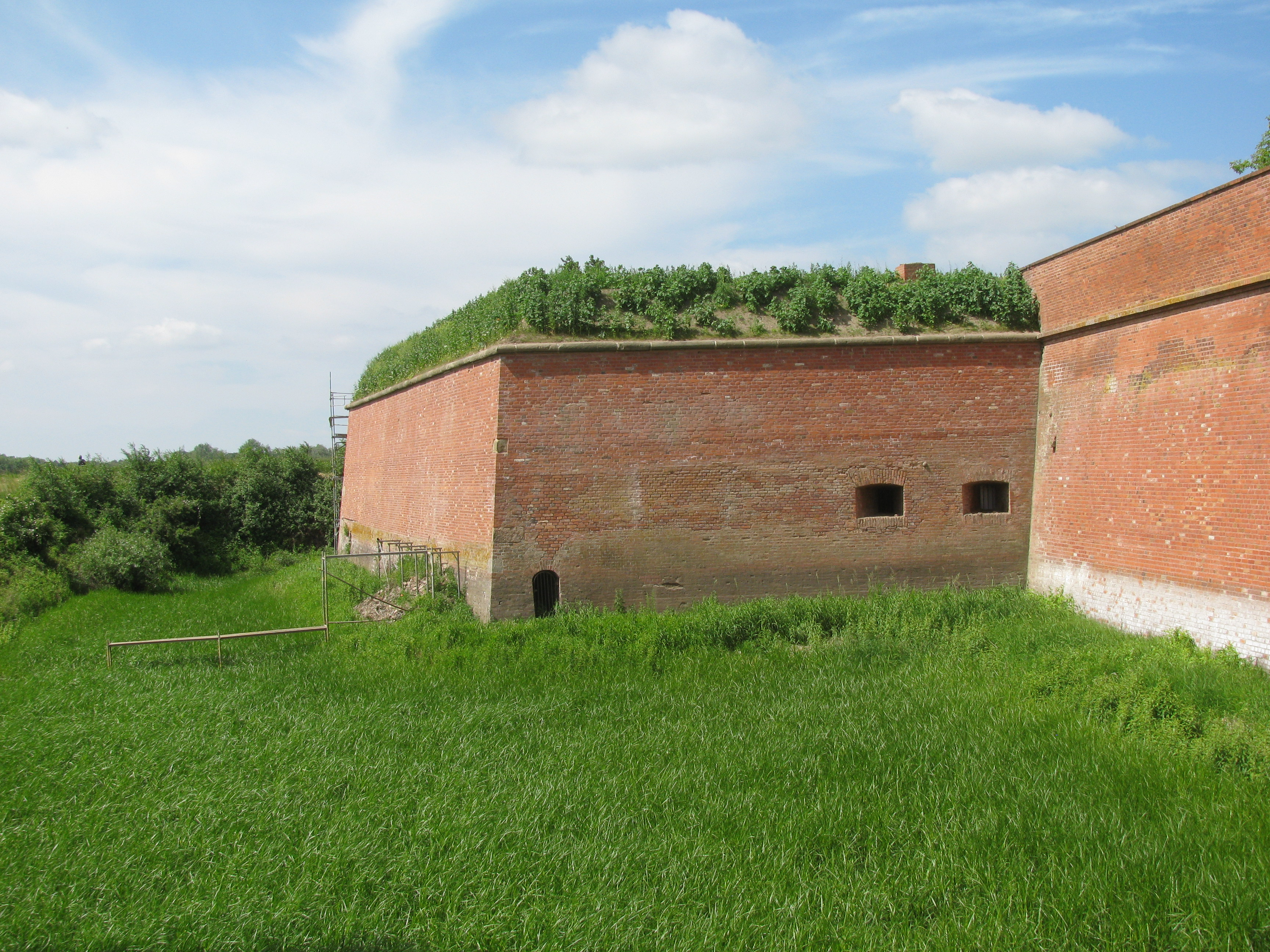 Fortress Dömitz, Mecklenburg-Vorpommern, Germany. The bastion "Held" (hero). In the flank a sally port and two gun ports are visible.